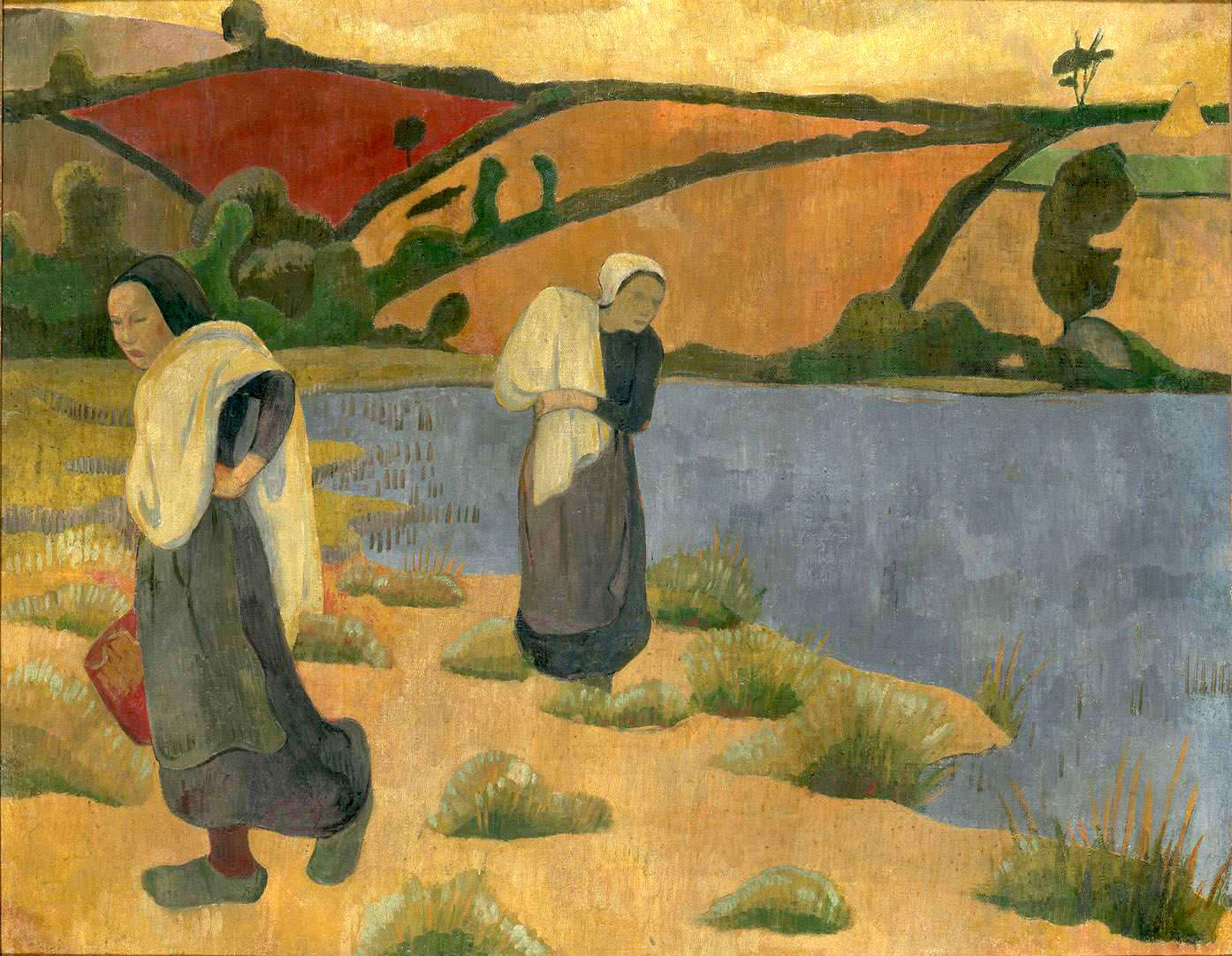 Les Laveuses à la Laïta (Laundresses at the Laïta River), oil on canvas, 73 × 92 cm, Musée d'Orsay, Paris